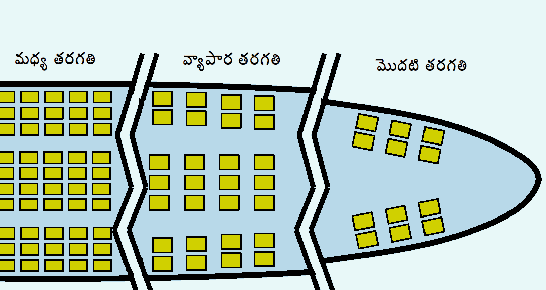 Seat Plan of Boeing 747-400 with class names in Telugu